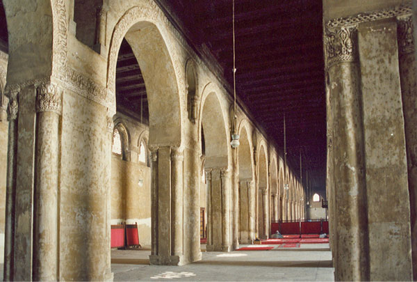 Ibn Tulun mosque. Cairo, Egypt